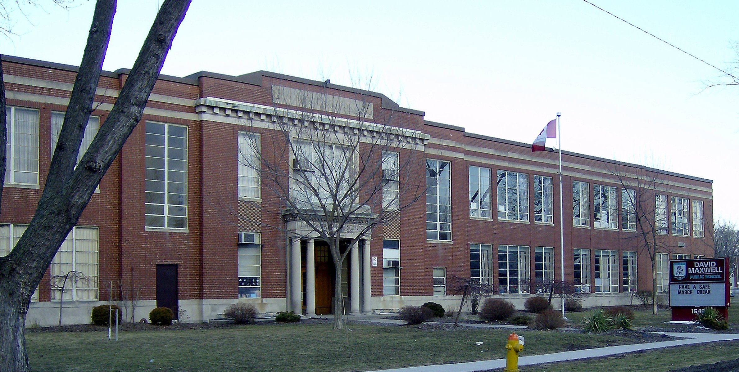 self made, old public school on Francois Street between Techmuseh and Seminole, thus in Ford City